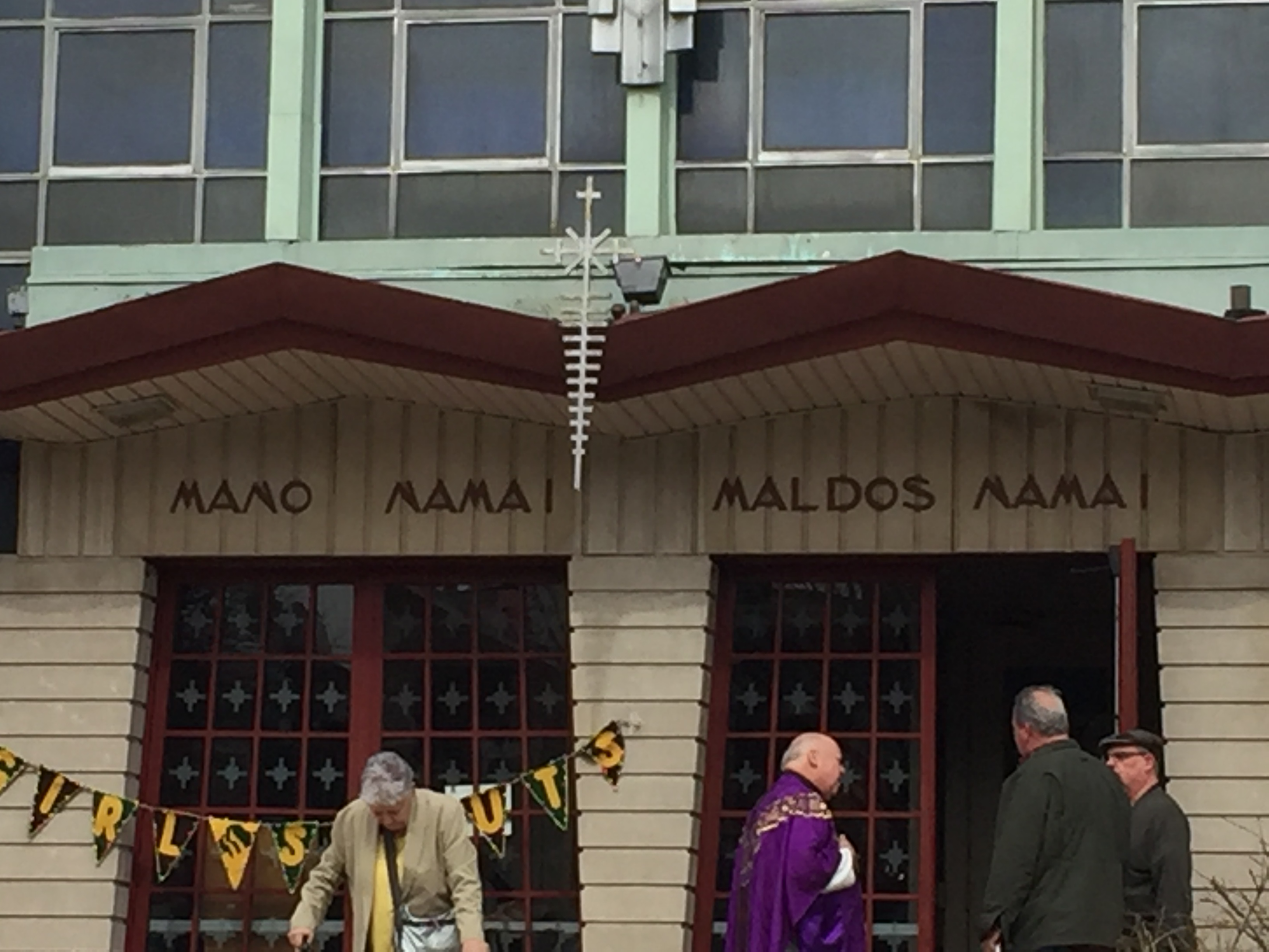 Exterior of the entrance doors of the Transfiguration Roman Catholic Church in Maspeth, Queens, New York. Above the two doors is a religious phrase written in the Lithuanian language Mano Namai Maldos Namai, meaning "My house is a house of prayer".